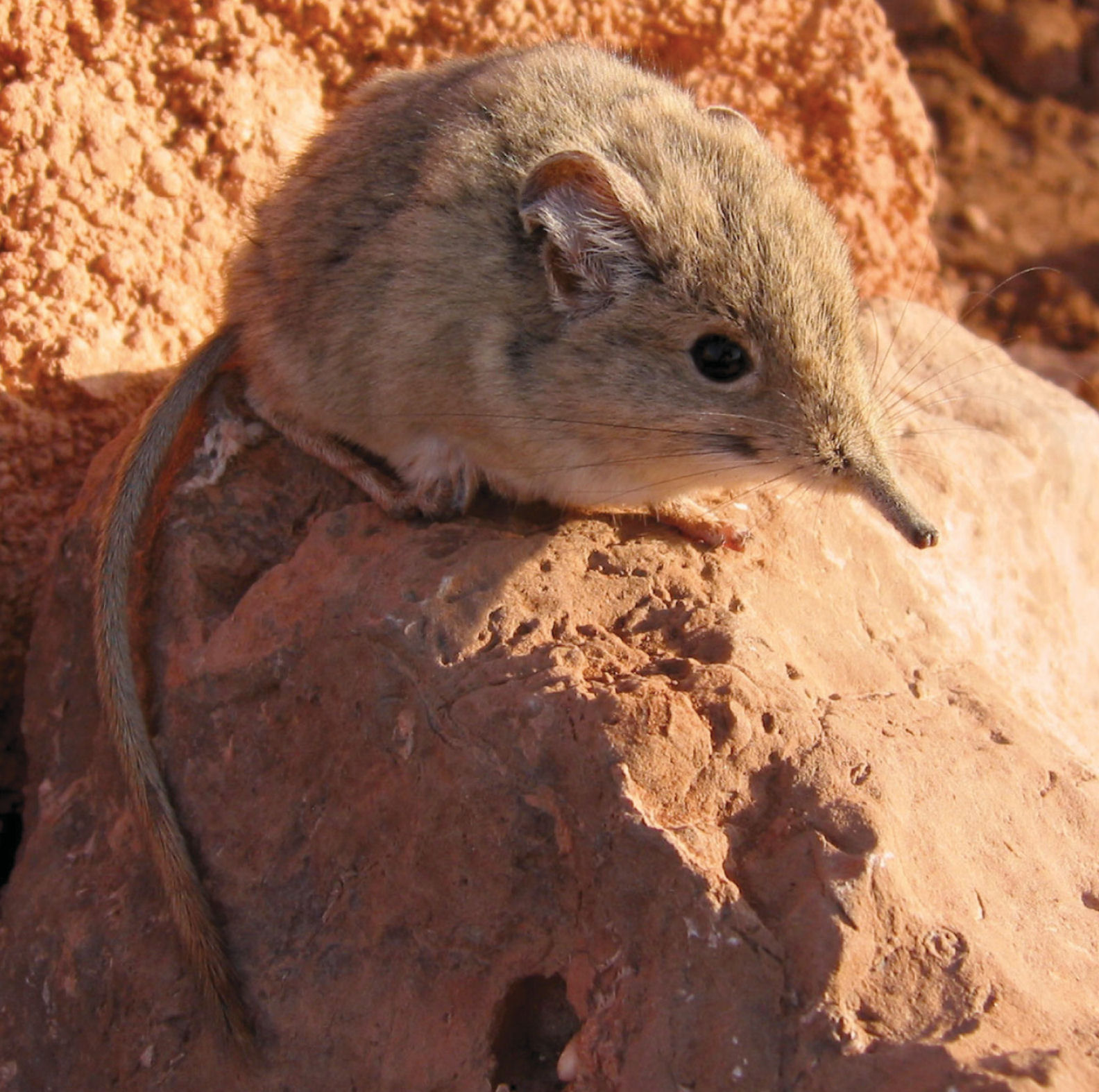 North African sengi (Petrosaltator rozeti, syn. Elephantulus rozeti), Adult male near Salas village, Jhilet Mountains, Marrakesh, Morocco on 18 July 2005, specimen number CAS MAM 27982